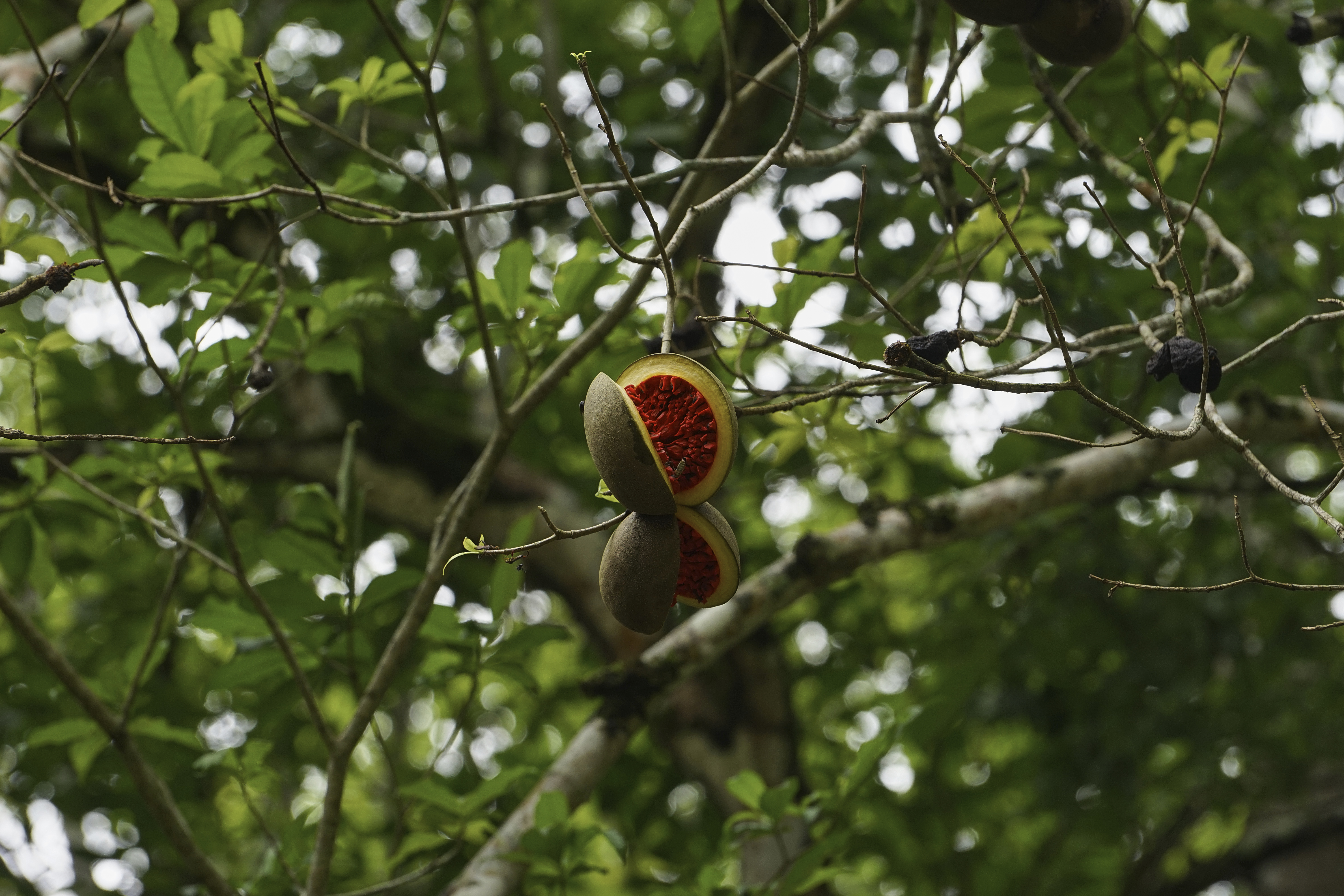 Tabernaemontana donnell-smithii, Fruit @ Cahal Pech, San Ignacio, Belize The making of this document was supported by the Community-Budget of Wikimedia Germany.